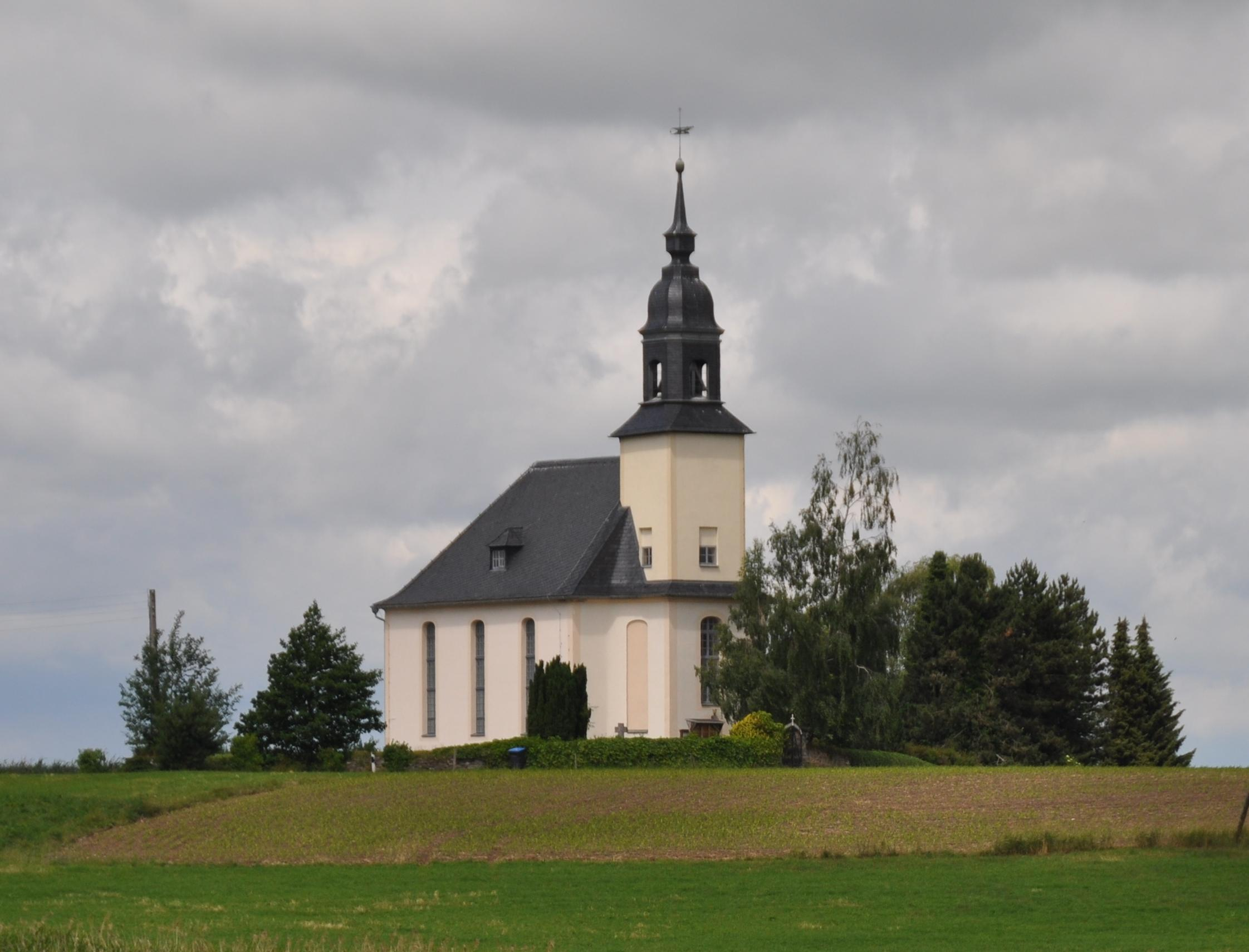 Church in Sorge-Settendorf